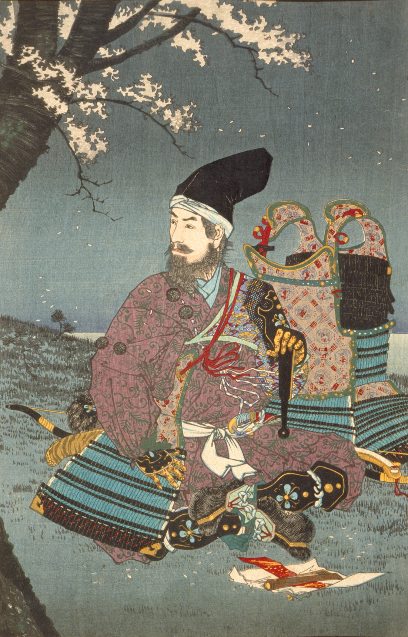 Japan, 1884 Prints; woodcuts Triptych; color woodblock prints Gift of Carl Holmes (M.71.100.56a-c) Japanese Art